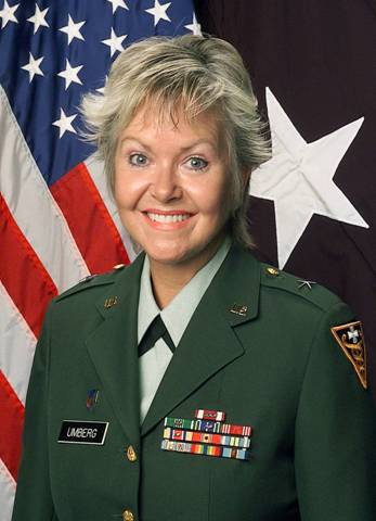 Biography of Brigadier General Robin Umberg, US Army Reserve, 3rd Medical Command